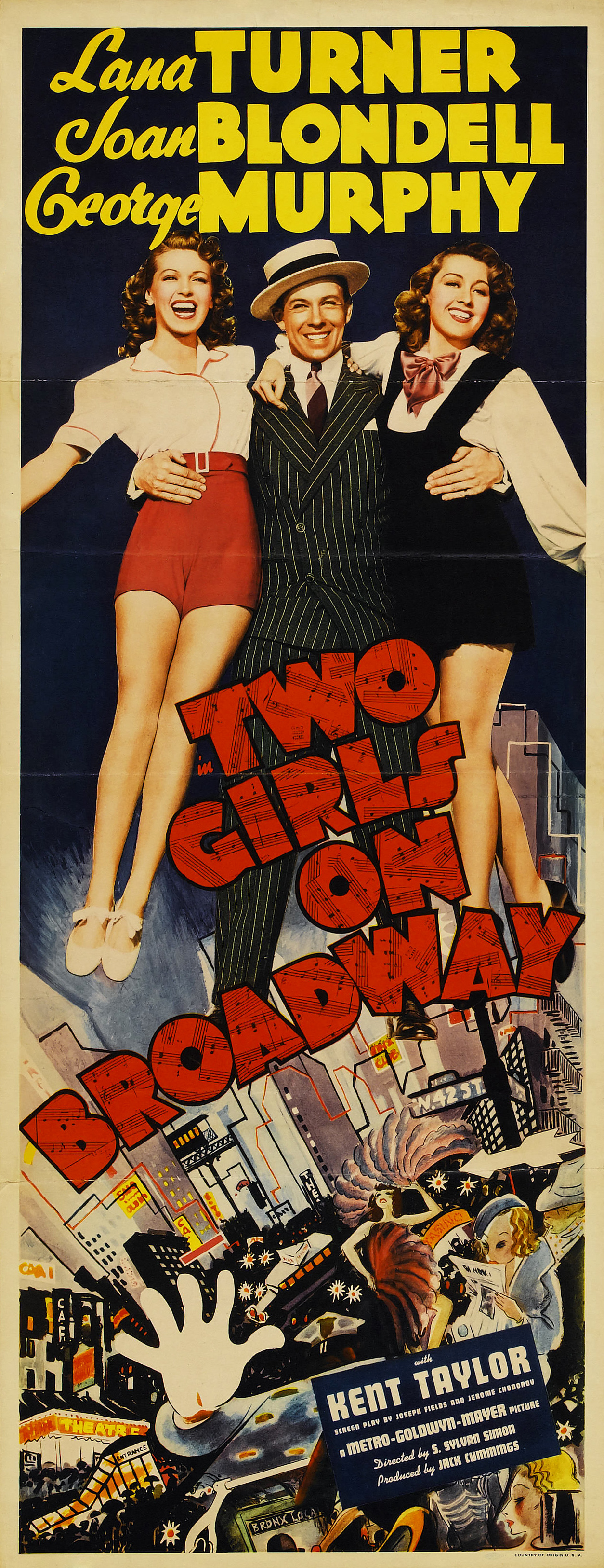 Film poster for Two Girls on Broadway